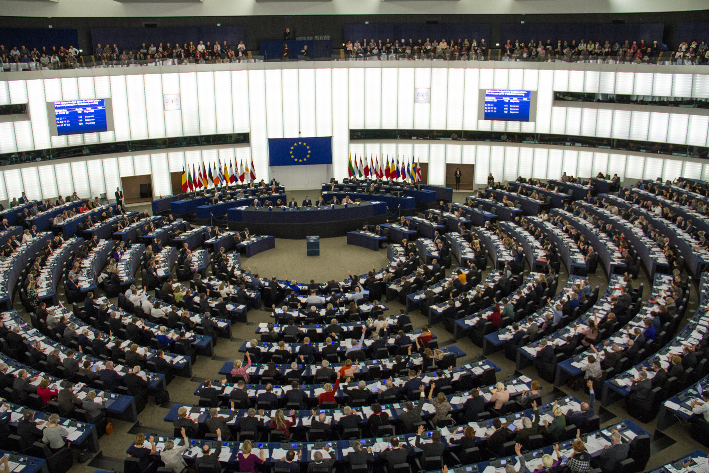 Hemicycle of the European Parliament in Strasbourg